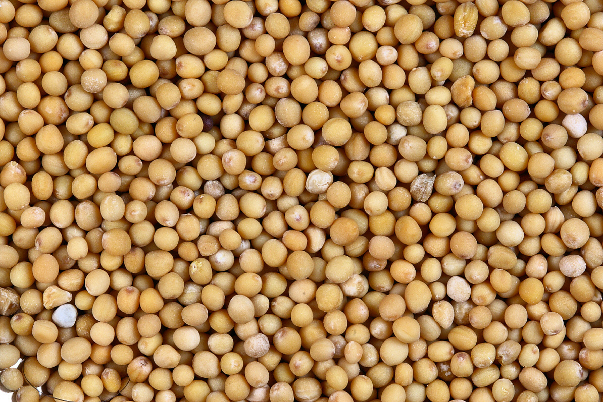 Yellow mustard seeds